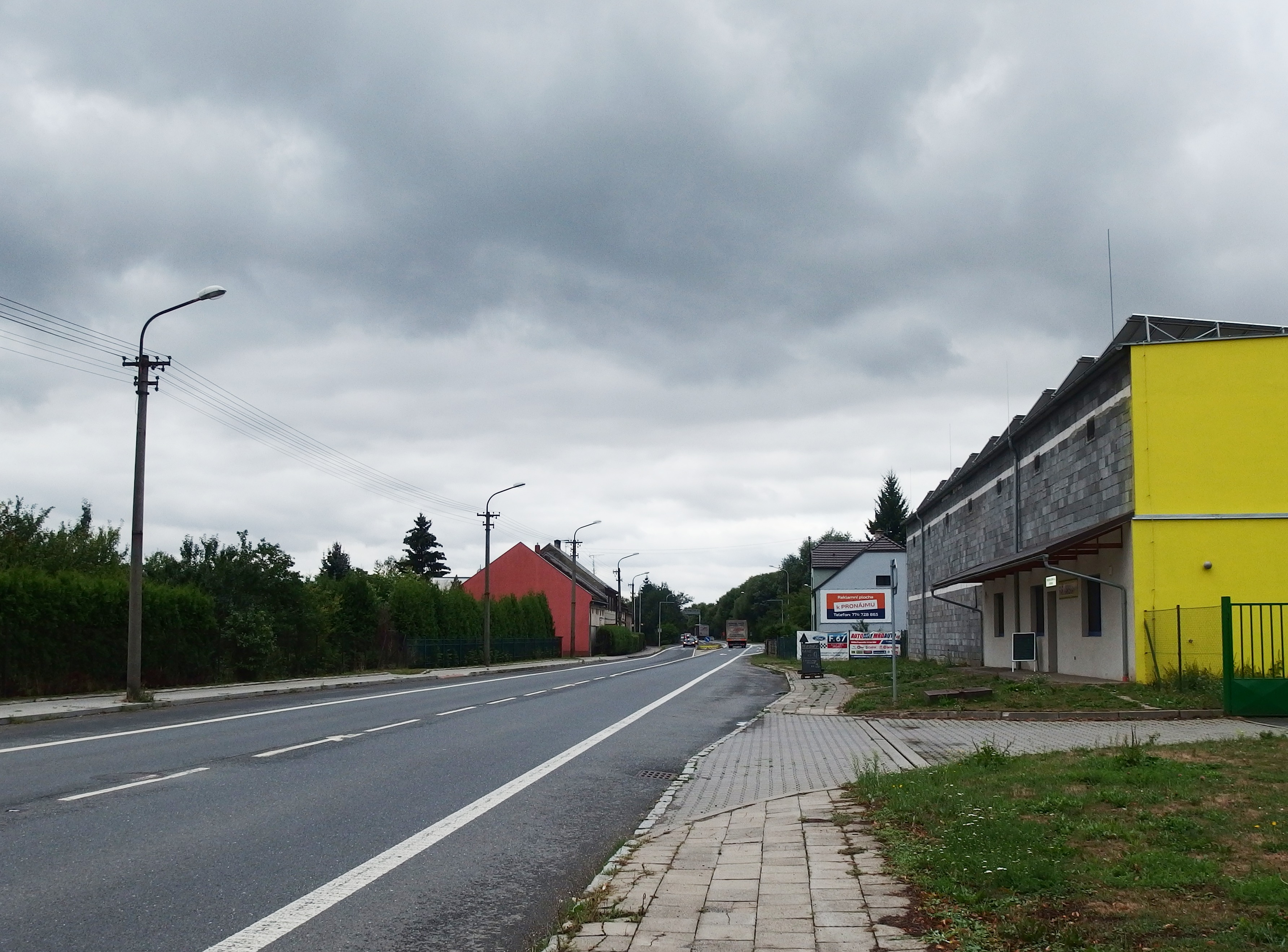 Přerov, Czech Republic, part Lýsky.